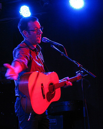 Matt O'Donnell of Tarmac Adam on stage at The Saint Asbury Park NJ 05232013. Photo by LHCollins